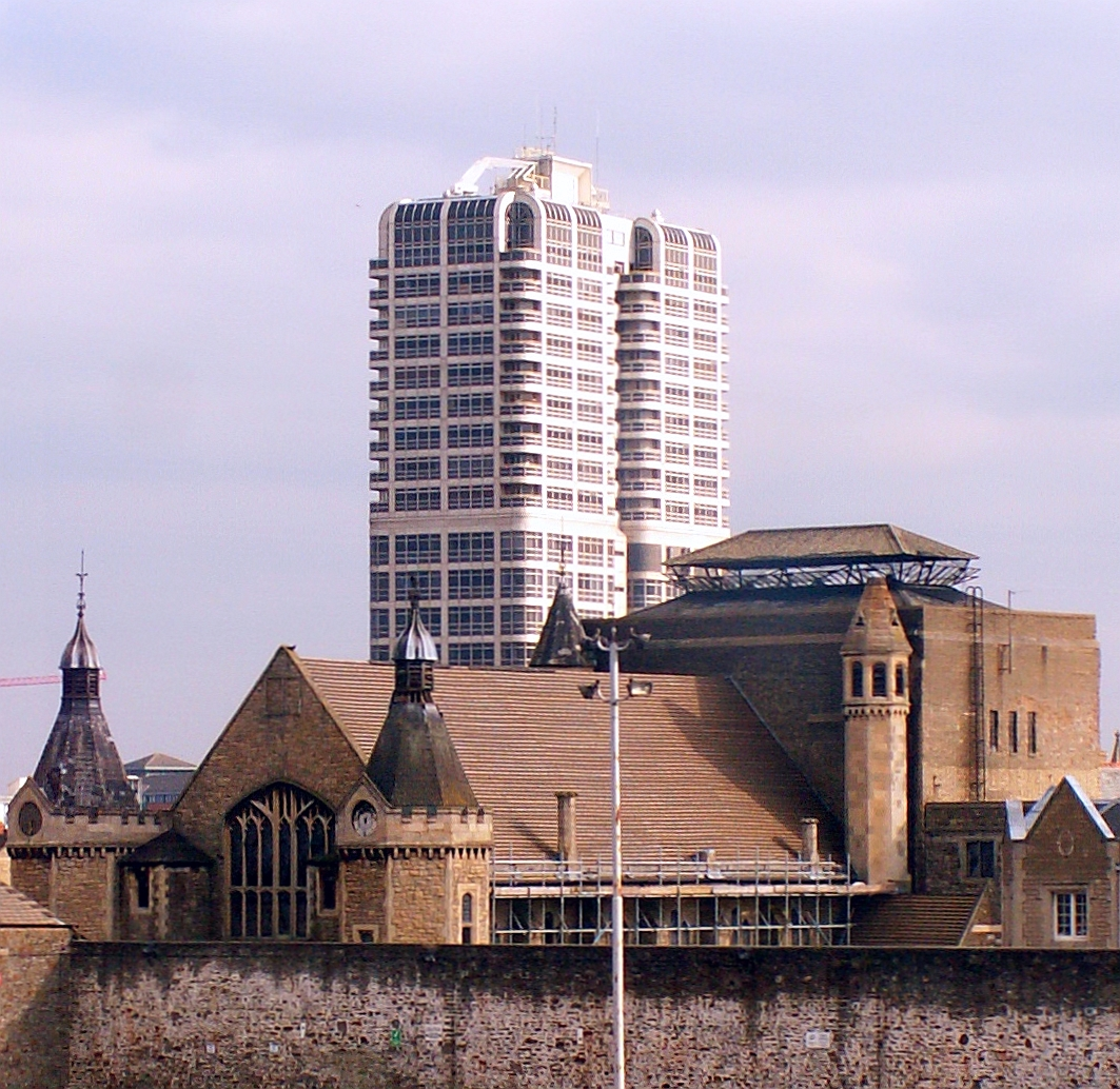 View of David Murray John Tower, Swindon